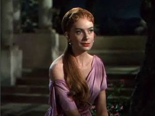 Screenshot of Deborah Kerr from the trailer for the film Quo Vadis